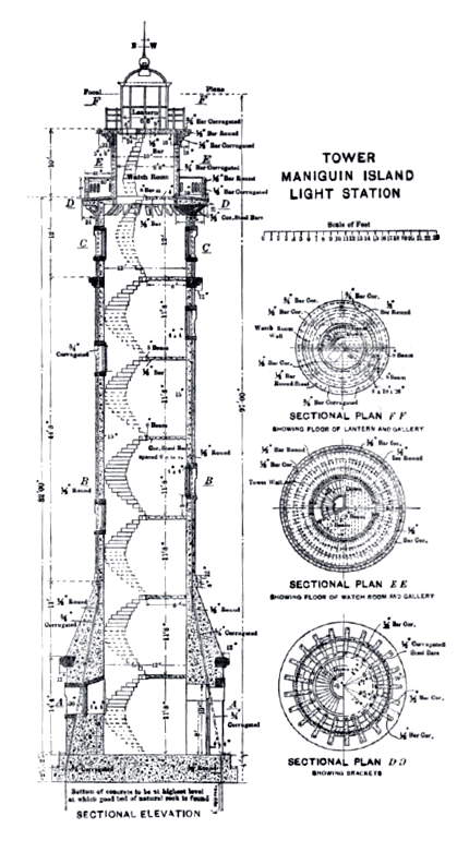 The American design of the proposed lighthouse on Maniguin Island, Antique, Philippines.